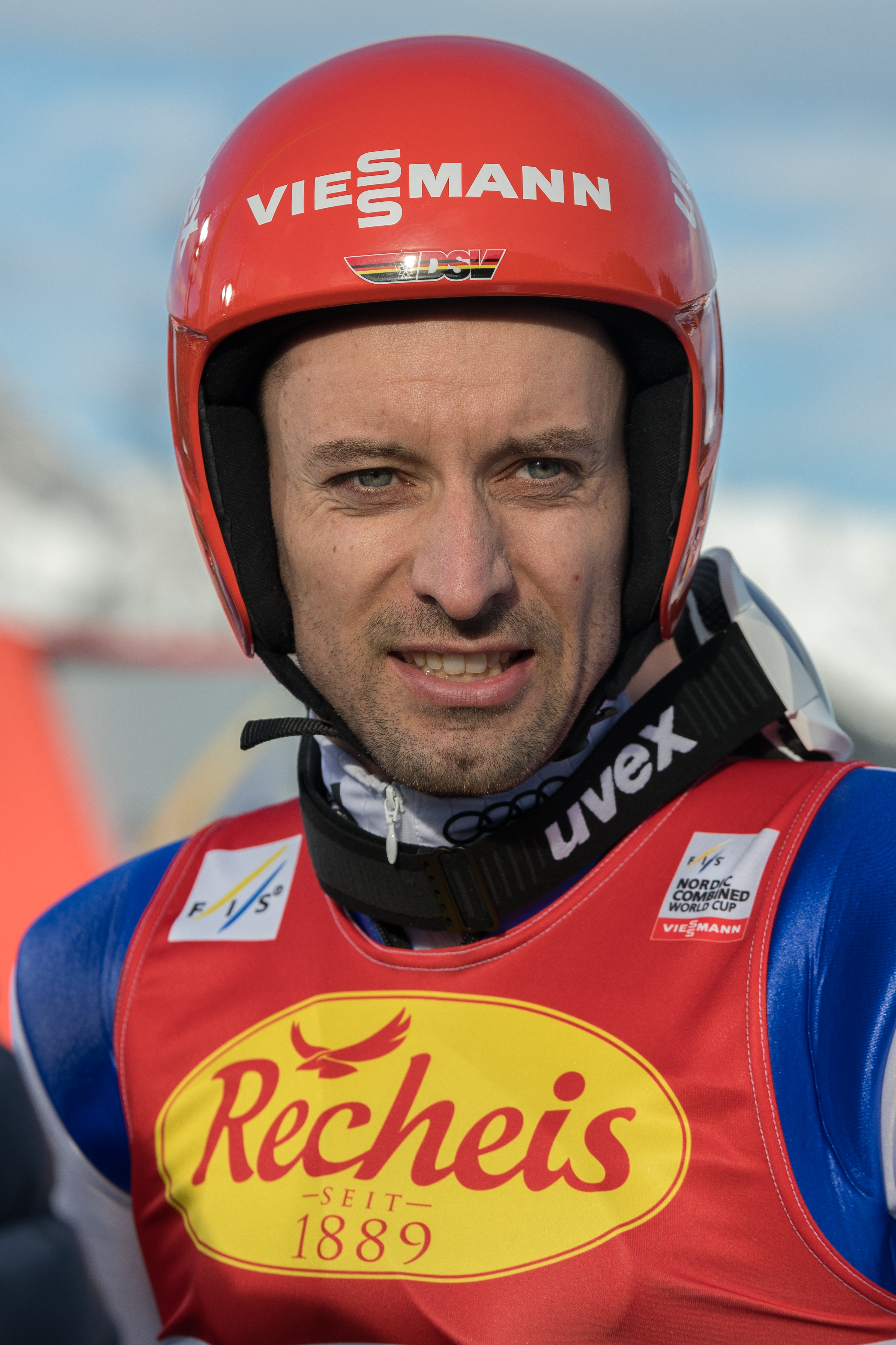 Seefeld-Triple 2018, first day January 26th. Picture shows Björn Kircheisen